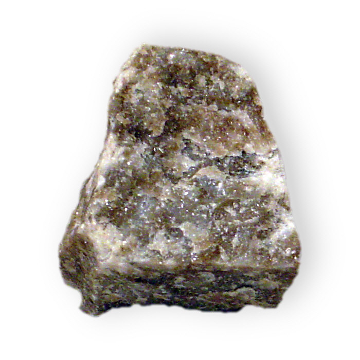 These mineral images are free to use how you wish.